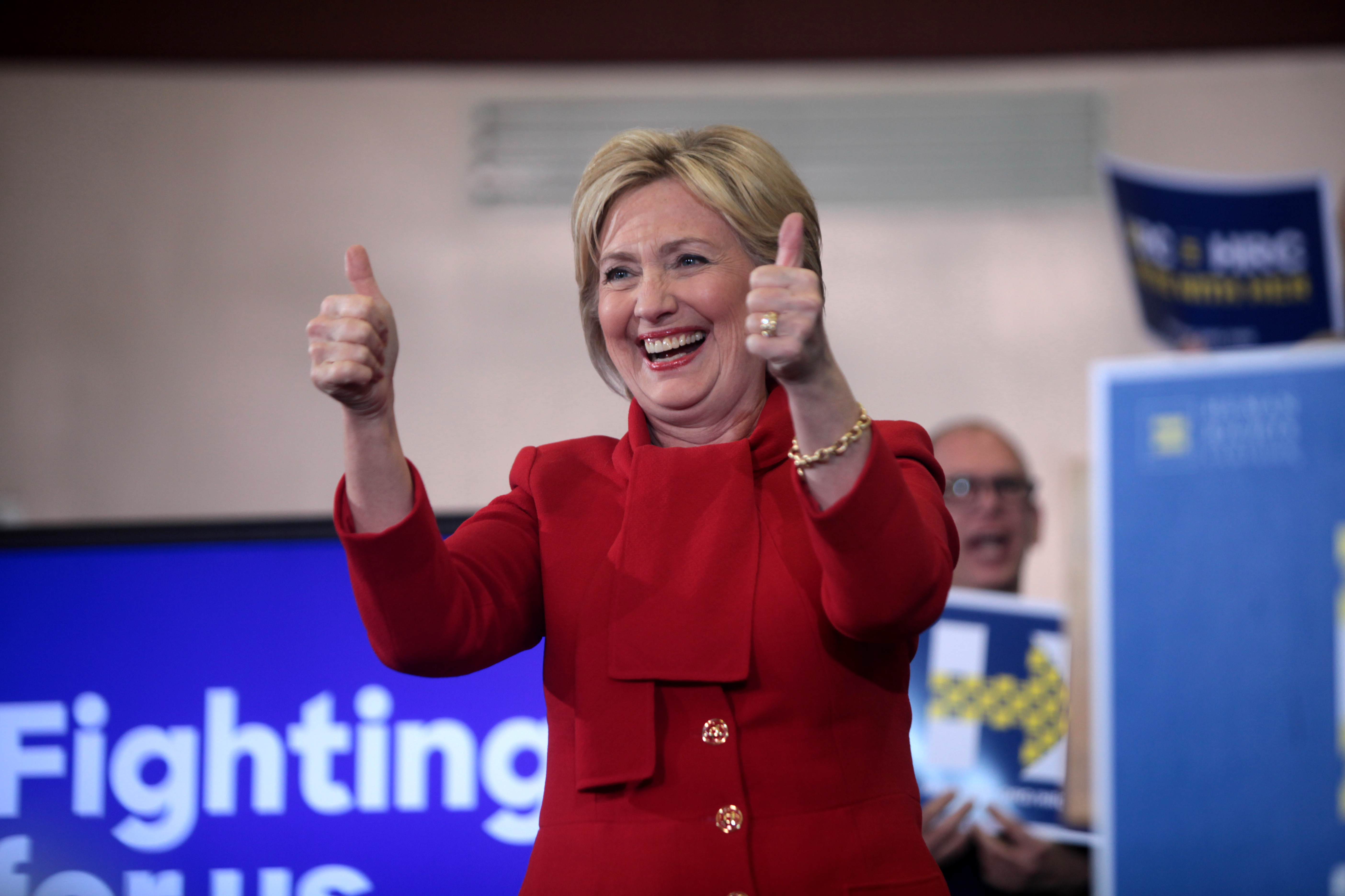 Former Secretary of State Hillary Clinton speaking with supporters at a "Get Out the Caucus" rally at Valley Southwoods Freshman High School in West Des Moines, Iowa.